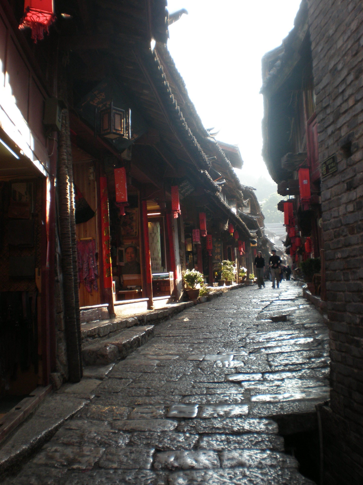 A side street in the Old Town of Lijiang, Yunnan.